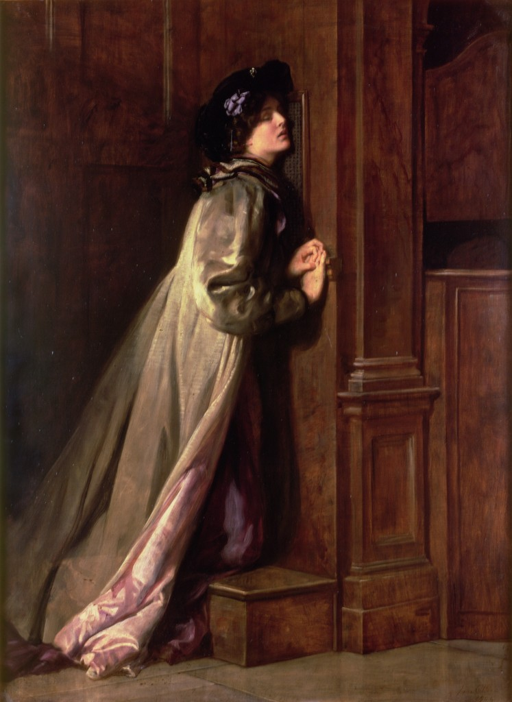 Painting by John Collier